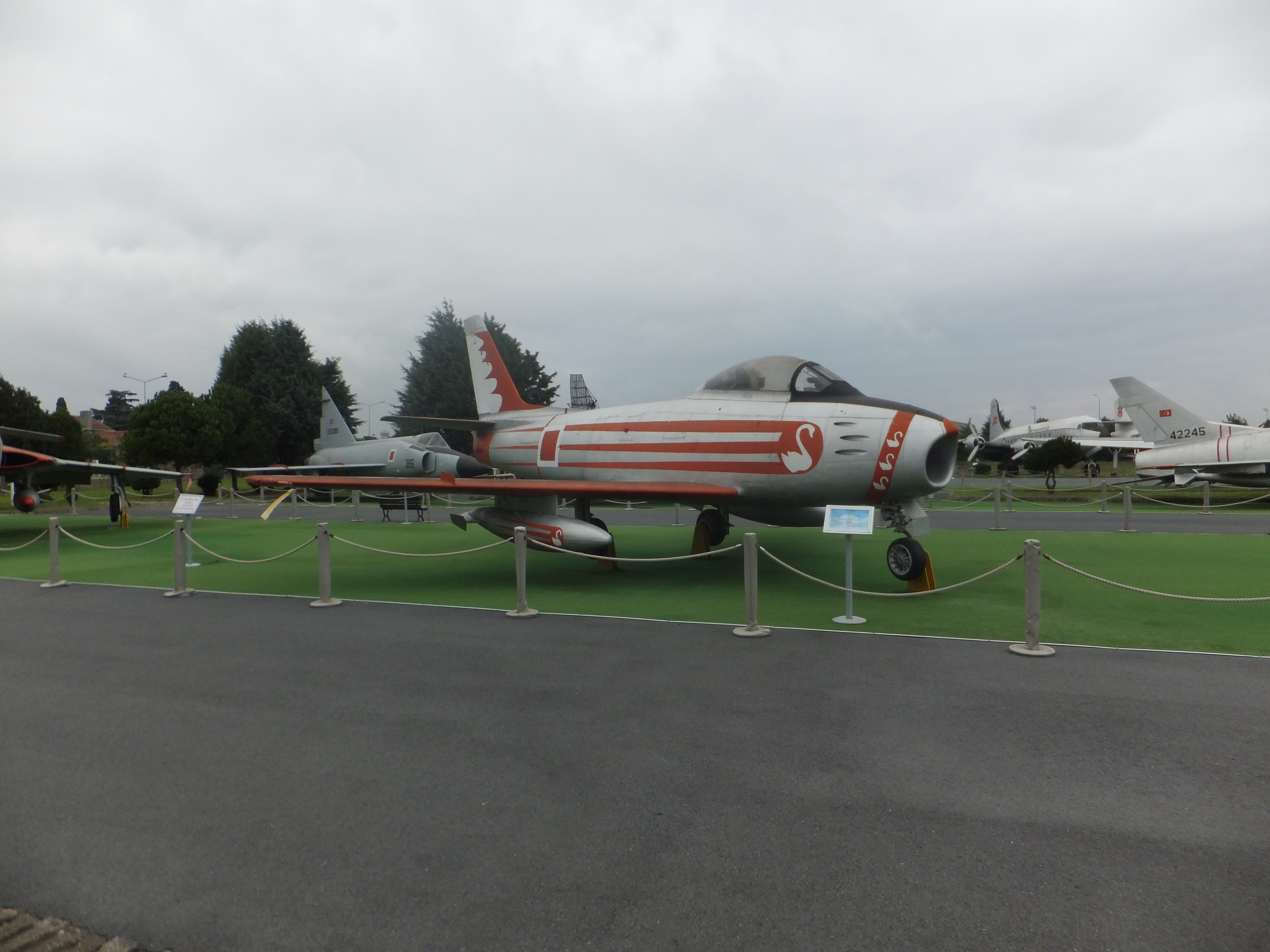 A retired F-86F Sabre, used by the Turkish Air Force, now currently retired and housed at the Istanbul Aviation Museum, Republic of Turkey